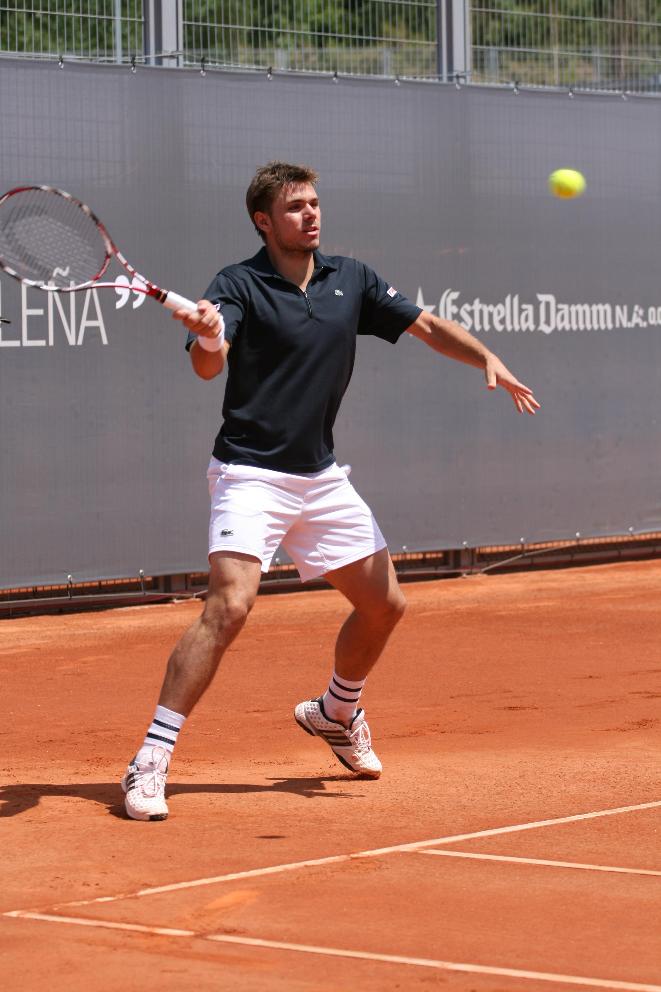 Stanislas Wawrinka against Jérémy Chardy in the 2009 Mutua Madrileña Madrid Open second round